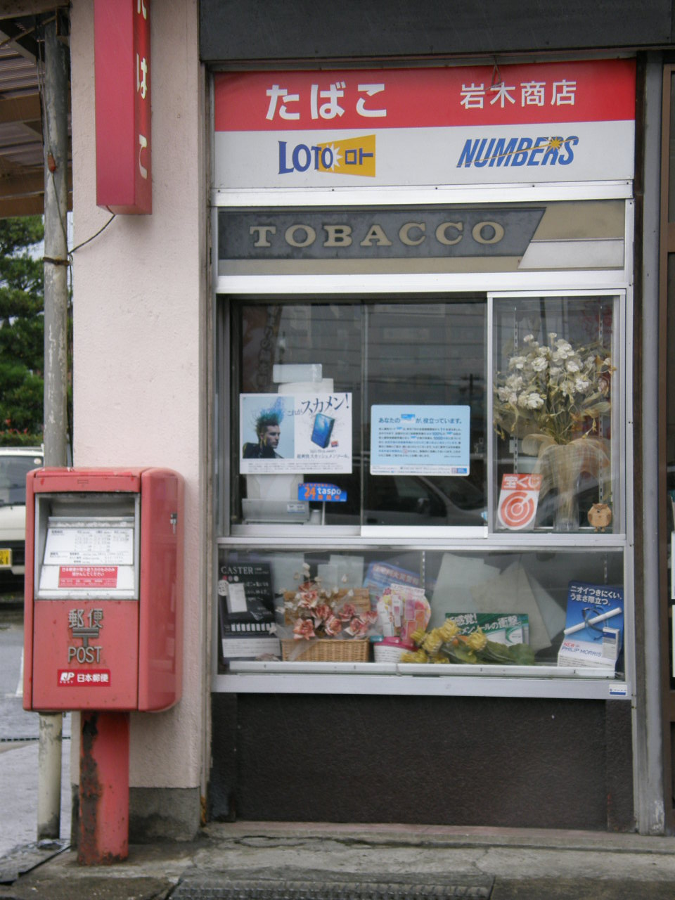 tobacco shop